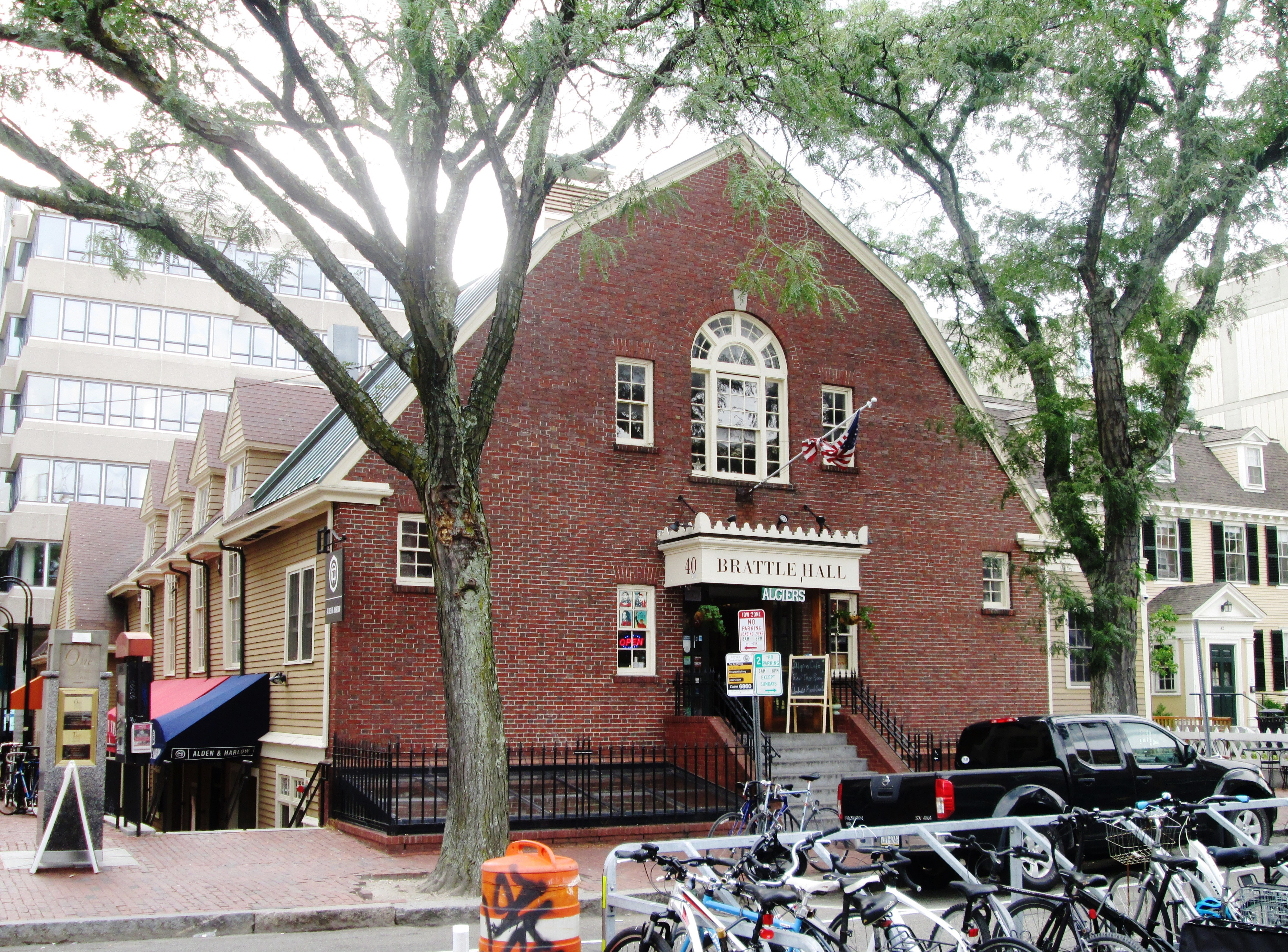 Brattle Hall is a historic building at 40 Brattle Street near Harvard Square in Cambridge, Massachusetts. It was constructed in 1889 for the Cambridge Social Union – established in 1871 – when that organization moved into the adjacent William Brattle House that year. Brattle Hall was built to house the organization's library, and to provide a space for larger meetings and social functions. Brattle Hall was designed by Longfellow, Alden & Harlow, originally in the Dutch Colonial Revival style, but it acquired more of a Colonial Revival feel with the 1907 addition of brick ends, designed by Charles Cogswell. The building now houses the Brattle Theatre, a repertory movie house operated by a local non-profit organization since 1953, a restaurant in its basement, and a coffee shop on its first level. Brattle Hall was listed on the National Register of Historic Places in 1982, and included in an expansion of the Harvard Square Historic District in 1988.